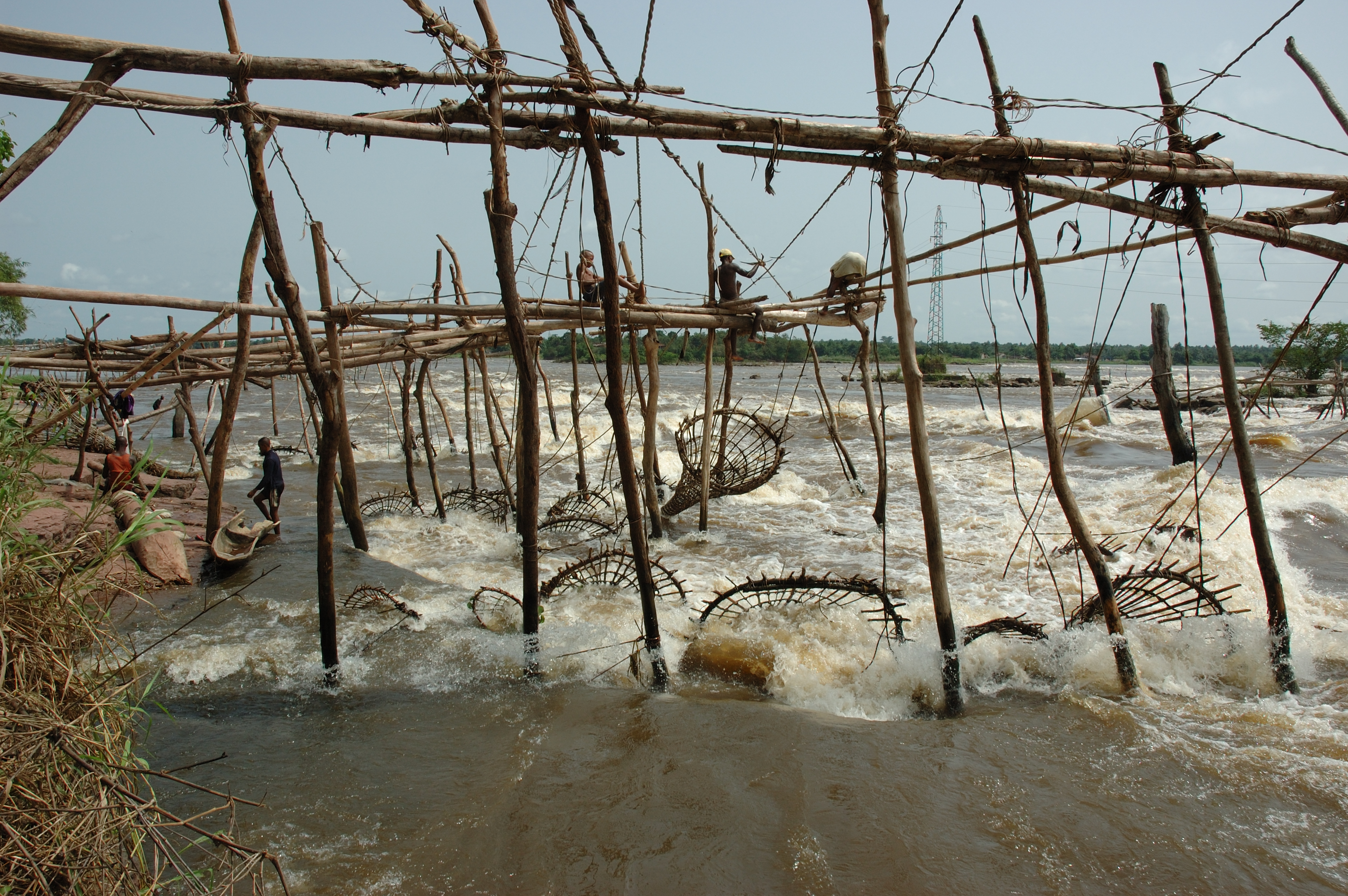 The local Wagenya peoples fishing community works the Kisangani Falls on the Lualaba River, near Kisangani in the Democratic Republic of the Congo. They attach conical fish traps to wooden frames to catch the fish thrown downstream by the rapids. "The school, health centre, and hospital (we visited) serve the fishing community."